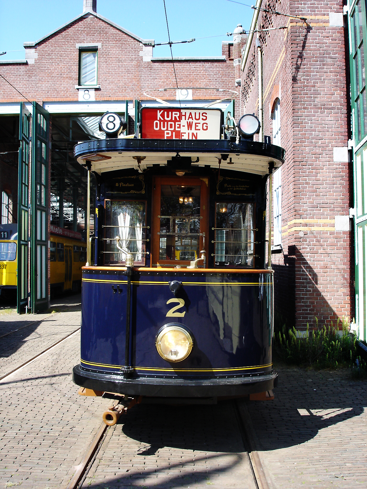 Route plate on HTM nr.2 motorcar